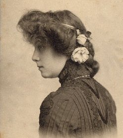 Actress Beatriz Michelena in 1901 or 1902, appearing at Macauley's Theatre in Louisville, Kentucky, with the traveling theatre troupe "Princess Chic Opera Co." Michelena is around ten years old. Original image was scanned for the Ekstrom Library, University of Louisville. ULPA 1980.20.1145, Macauley's Theatre Collection, 1980.20, Special Collections, University of Louisville, Louisville, Kentucky. Portrait photograph is a publicity souvenir, common in the performing arts world of that time, given to each new theater that the troupe visits, for the purpose of adding to newspaper articles, flyers, programs and other publicity materials.